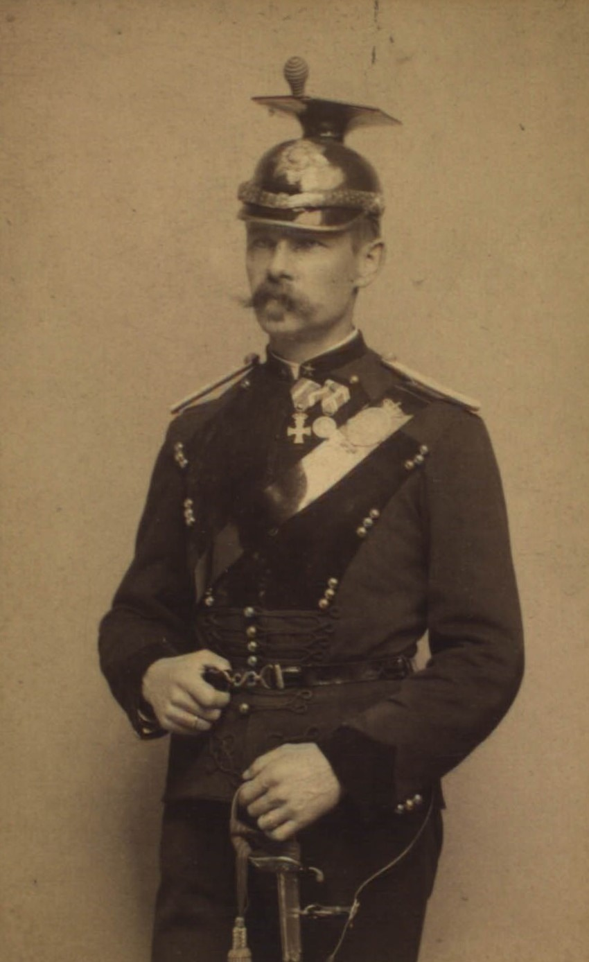 Henrik Vilhelm Nielsen Dræby, Danish military musician in Kongens Livjægerkorps uniform